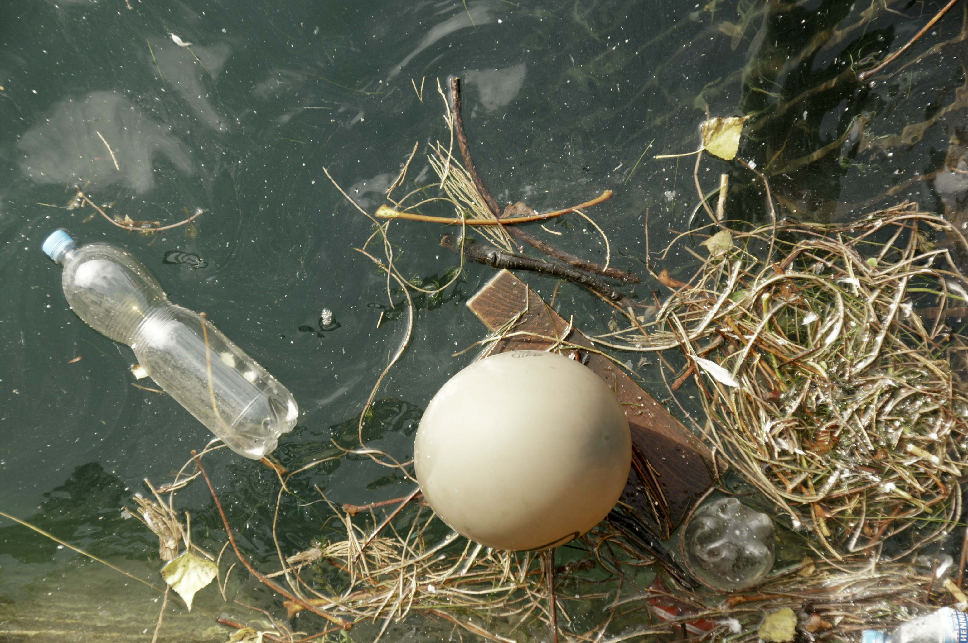 Waste